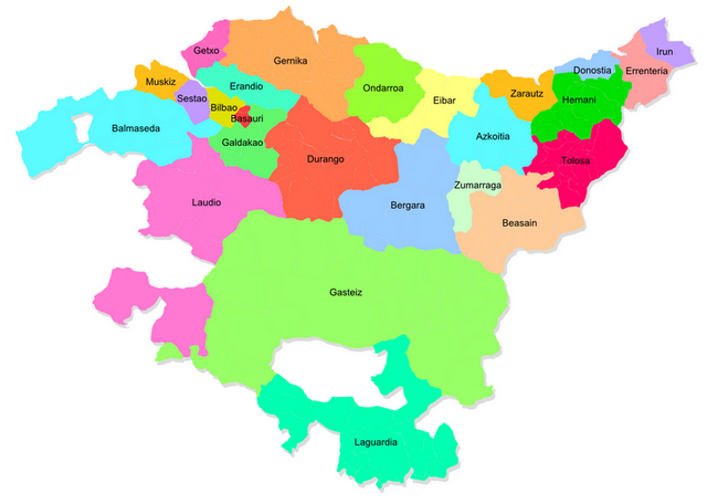 Basque Police Stations Map